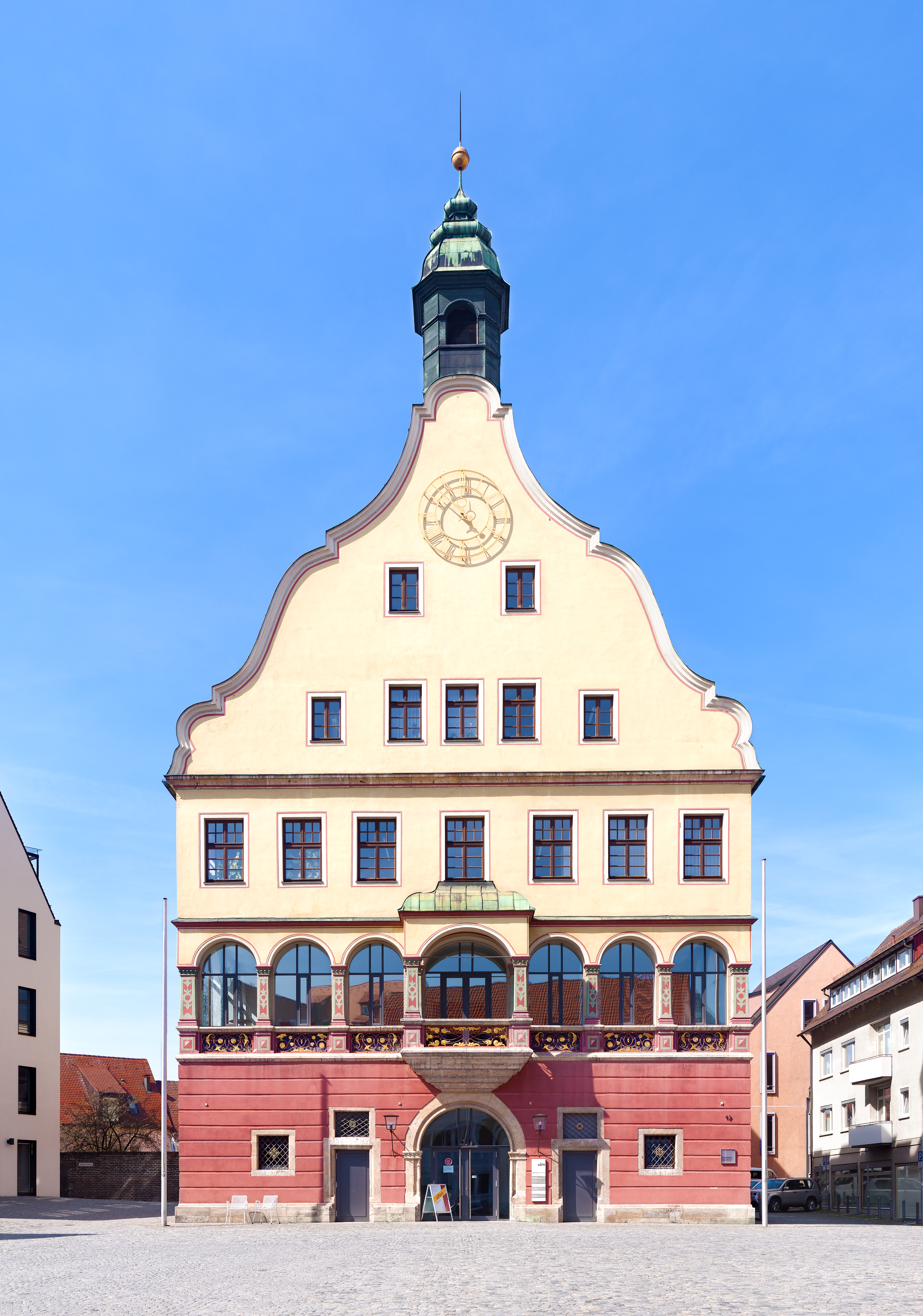 Schwörhaus in Ulm, frontview.